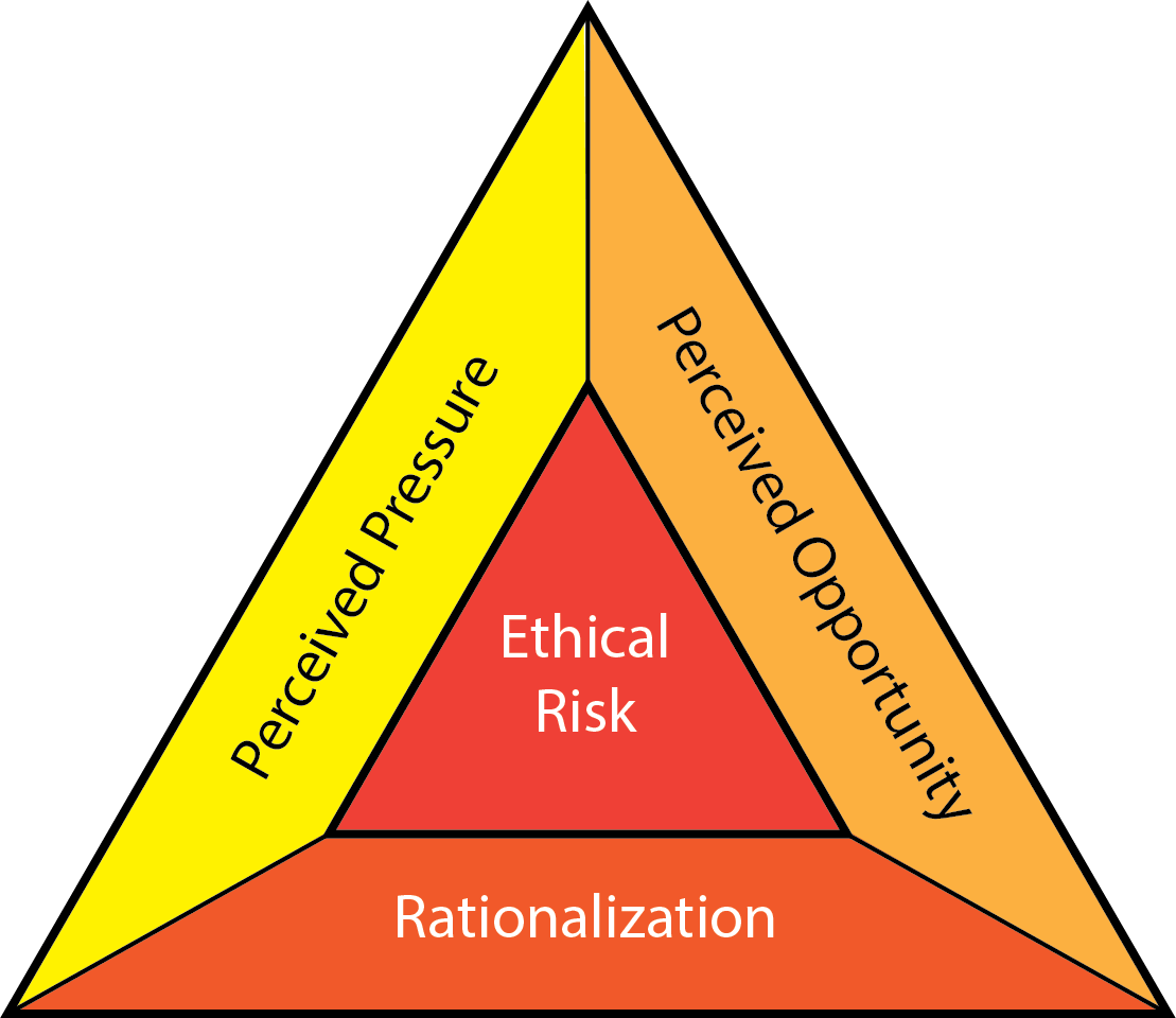 The Fraud Triangle or Compromise Triangle was first proposed in 1951 in the article "Why Do Trusted Persons Commit Fraud? A Social-Psychological Study of Defalcators" in the Journal of Accountancy by Donald Cressey and Edwin Sutherland. This was later researched by a team from KPMG and the term "Fraud Triangle" was coined by one of the researchers, W. Steve Albrecht, Ph.D., CFE, CPA, CIA. This visualization of the Fraud or Compromise Triangle is my own work.